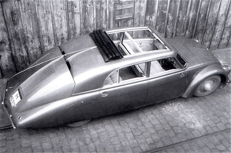 Tatra T77A with Webasto roof.